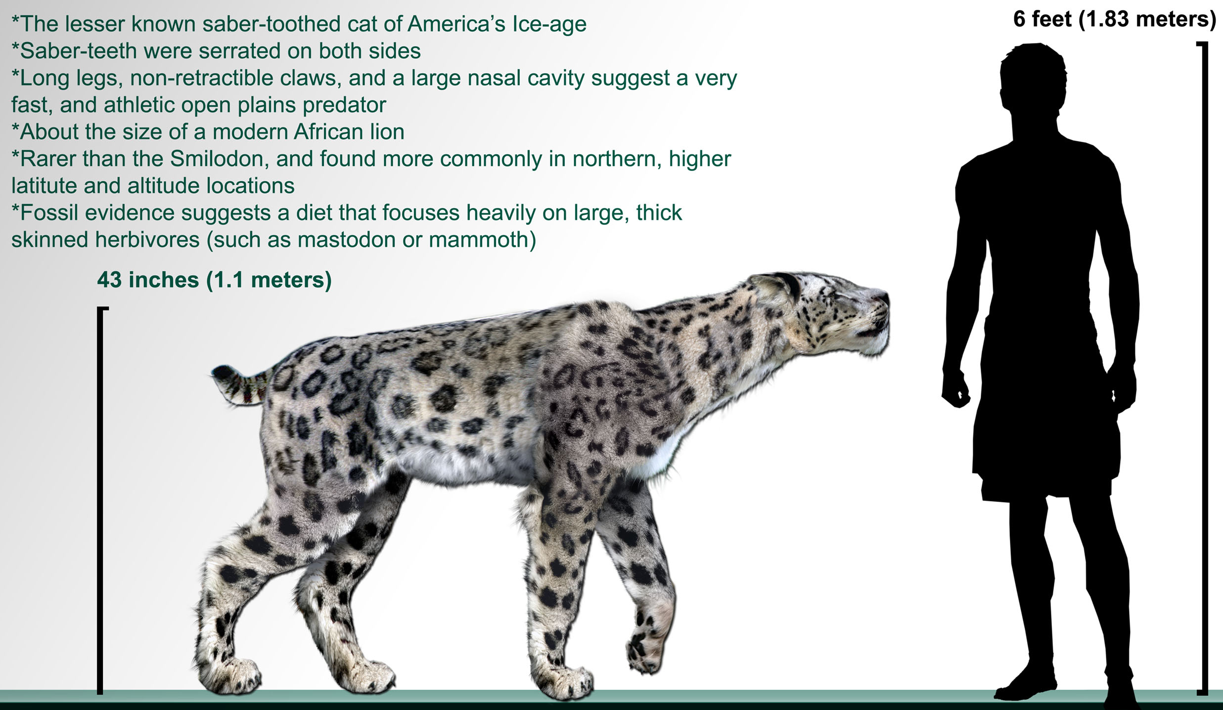 Homotherium serum life-restoration